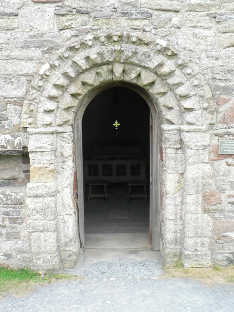 Isle of Iona: St. Oran's Chapel doorway Detail of the stonework of the doorway of 921135; a cross made of mirror glass at the back of the chapel provides an interesting reflection of the outside.